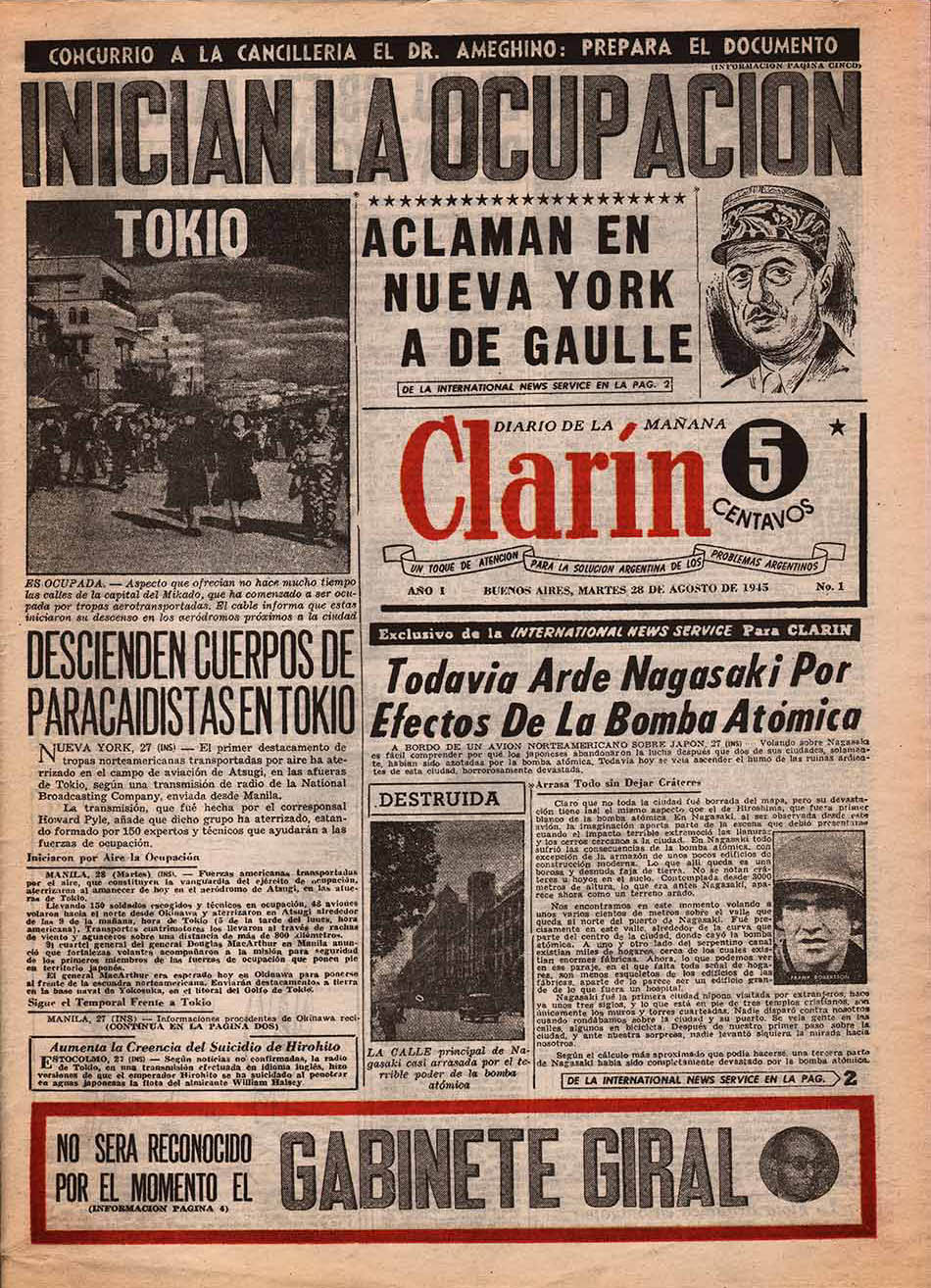 Cover to Clarín Argentine newspaper #1.